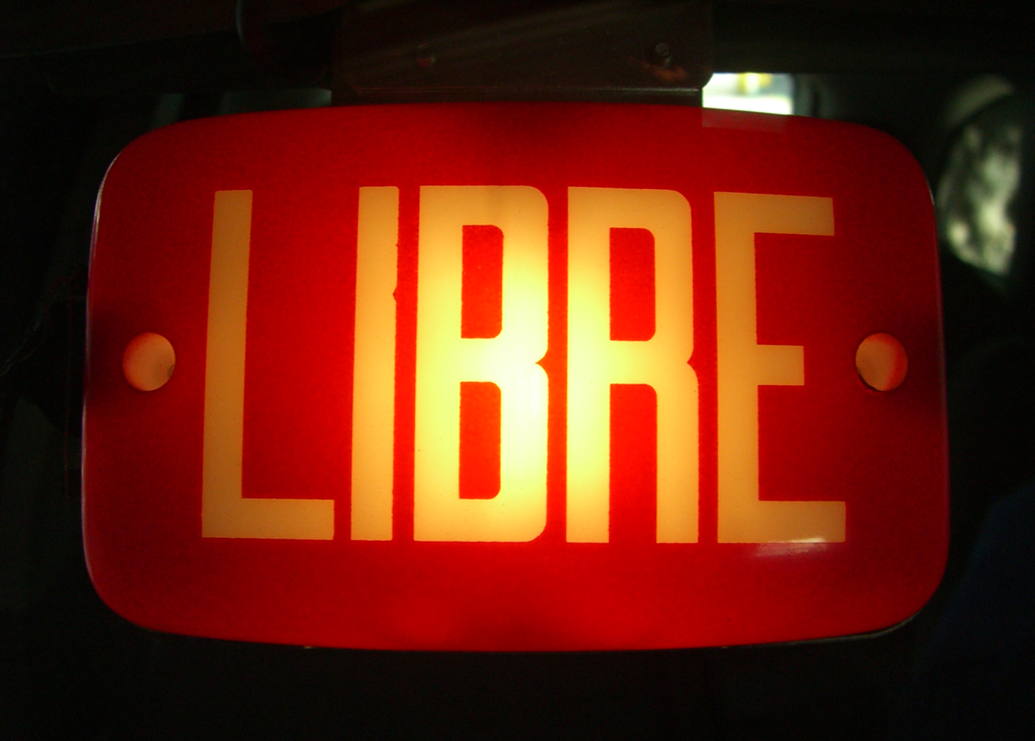 This is the sign that Buenos Aires taxi cabs use in their windshields to let you tell if they are with a passenger or available. (turned on like in here is "available", obviously, while turned off becomes invisible from a distance and means the car is busy.)